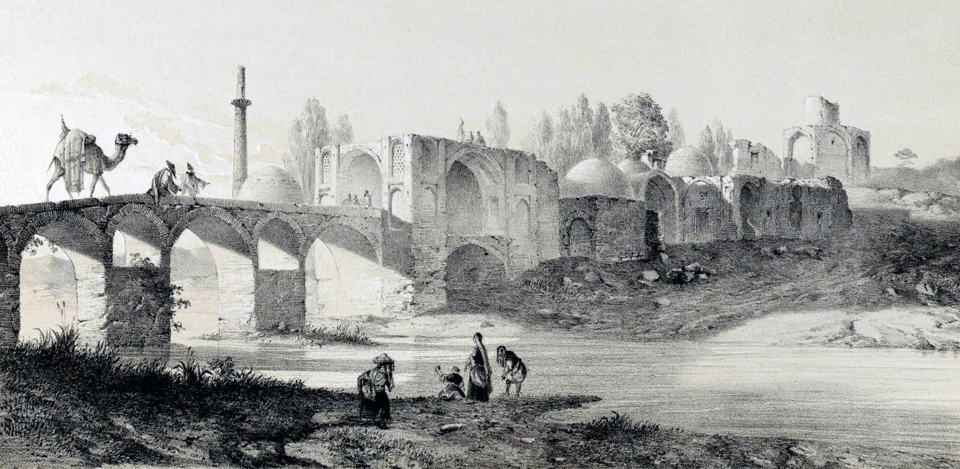 Shaherestan village , near Isfahan